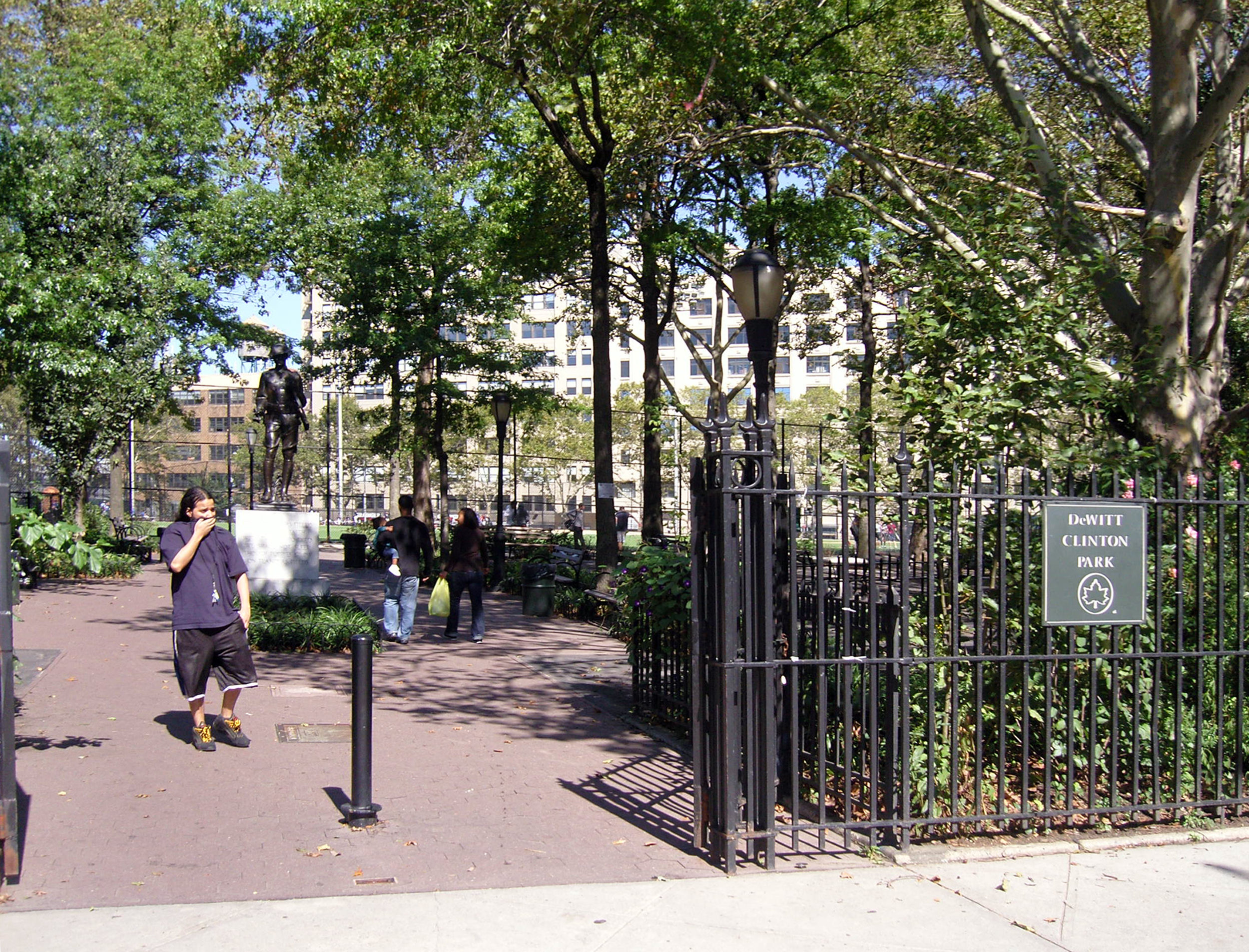 New York City, DeWitt Clinton Park, Entrance (mid-vista: Doughboy monument by Burt Johnson; see File:Flanders doughboy Clinton Pk sunny jeh.jpg for more detail)